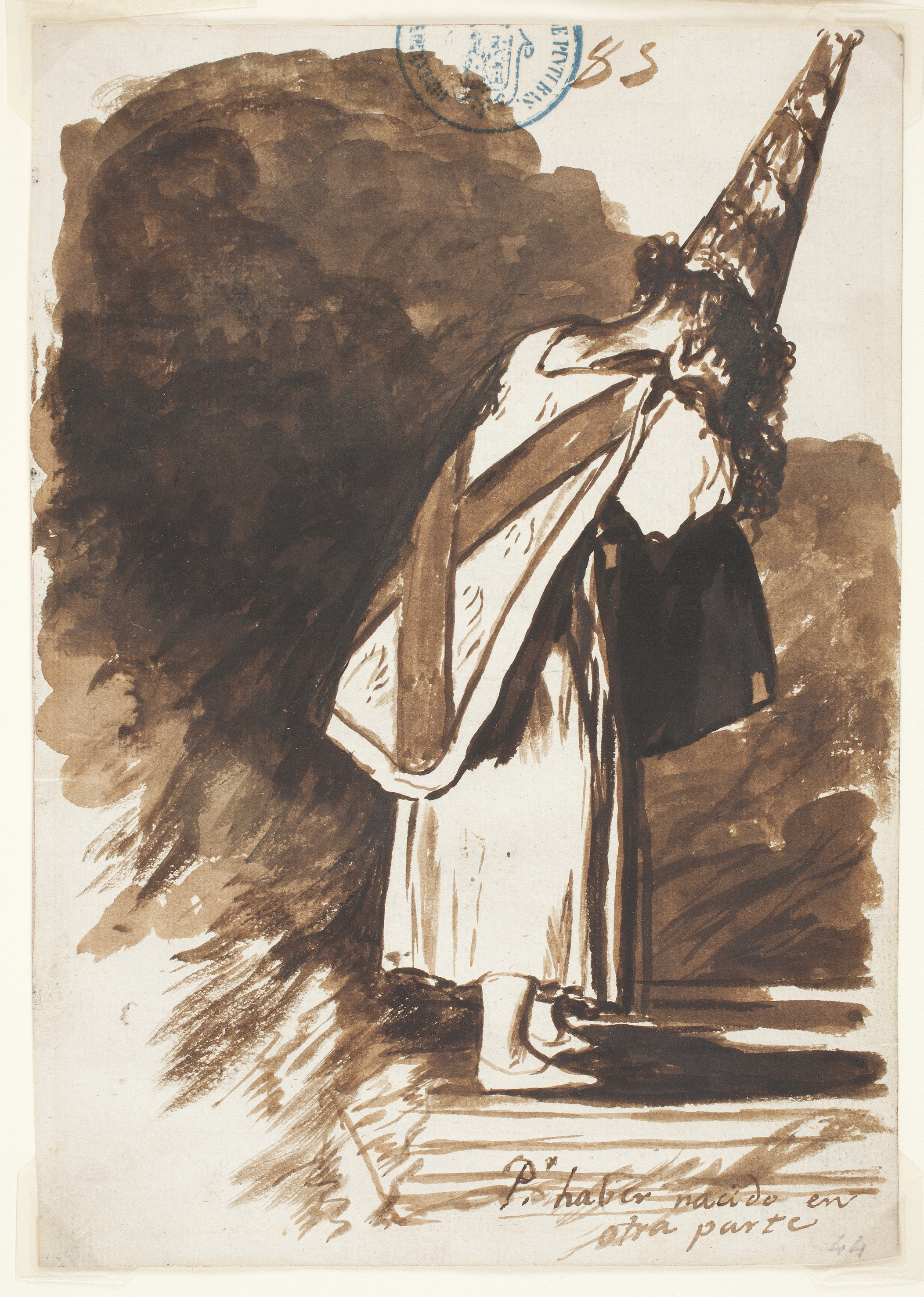 During the period 1814-1823, Goya sketched in an album a series of eight drawings portraying individuals prosecuted by the Inquisition. The victims wear the long conical cap known as the coroza and the tunic known as the sanbenito, which fit over the chest and upon which were inscribed the reasons for condemnation. Dunce cap like headgear